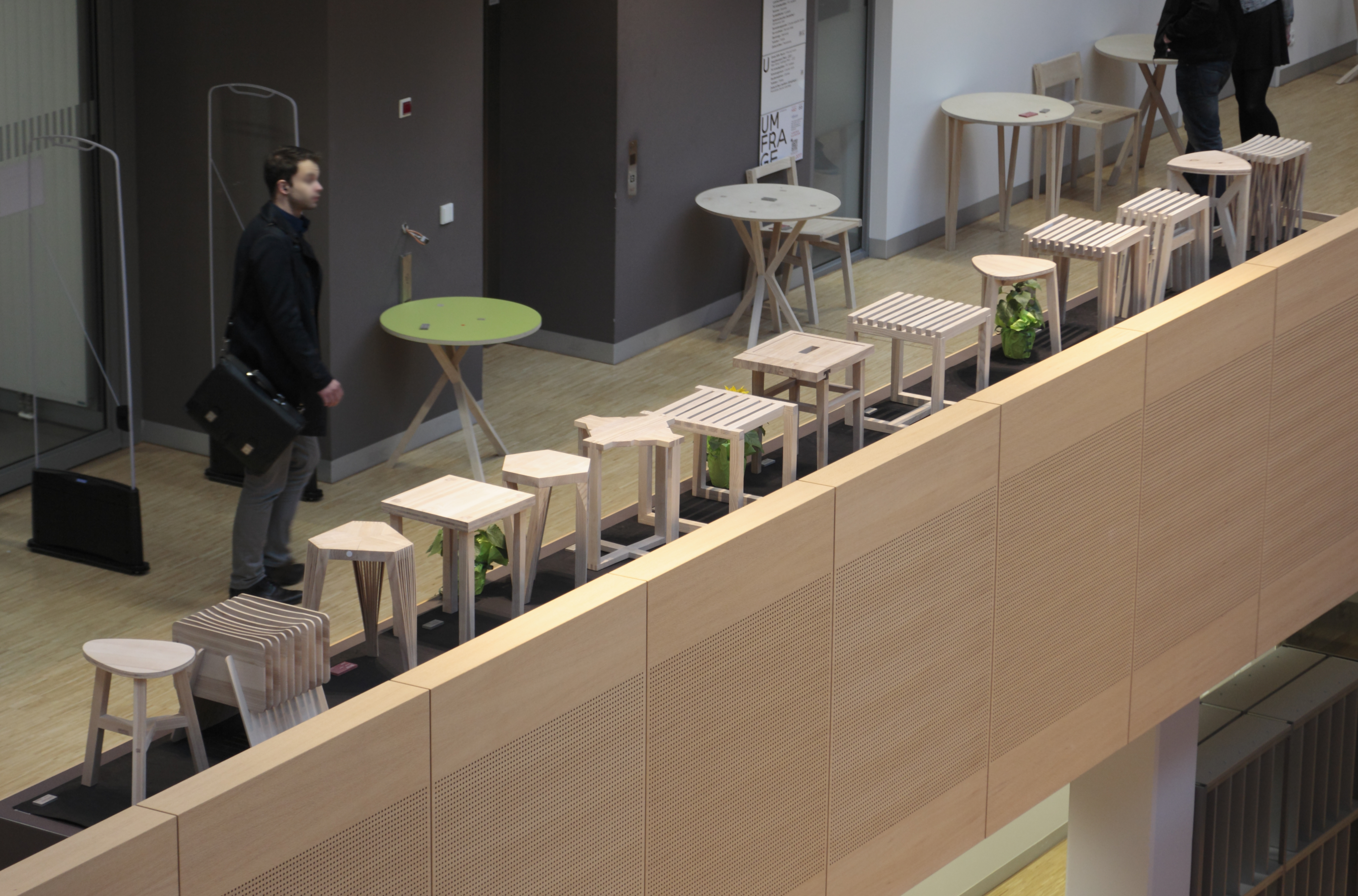 Exhibition at the library of the University of Applied Sciences, Dusseldorf, 2017: 14 of more than 60 different stools for the "Wiesencafé", Wittenberger Weg, Dusseldorf-Garath. The stools were designed by children living in that quarter of Dusseldorf, and created by students of the University of Applied Sciences, Dusseldorf. Part of the project "Poor or rich?" by Ute Reeh.